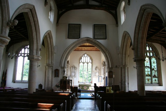 Inside the nave of the parish church of St John the Evangelist, Ryhall, Rutland, looking east towards the chancel